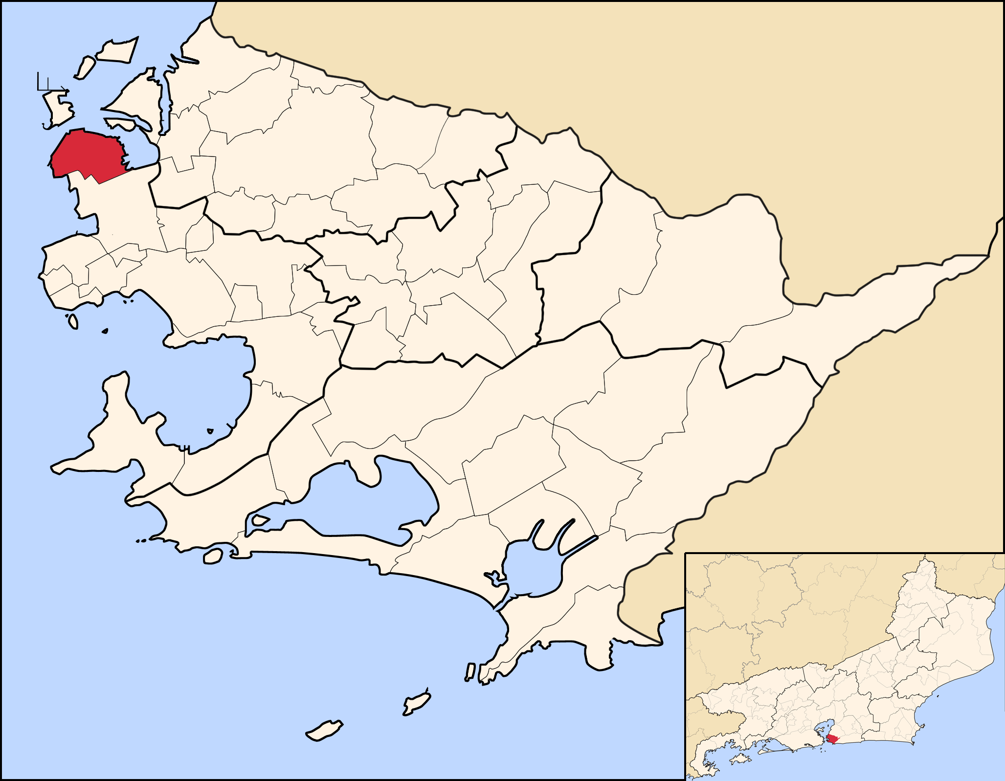 Ponta d'Areia, Niterói, Rio de Janeiro, Brazil.